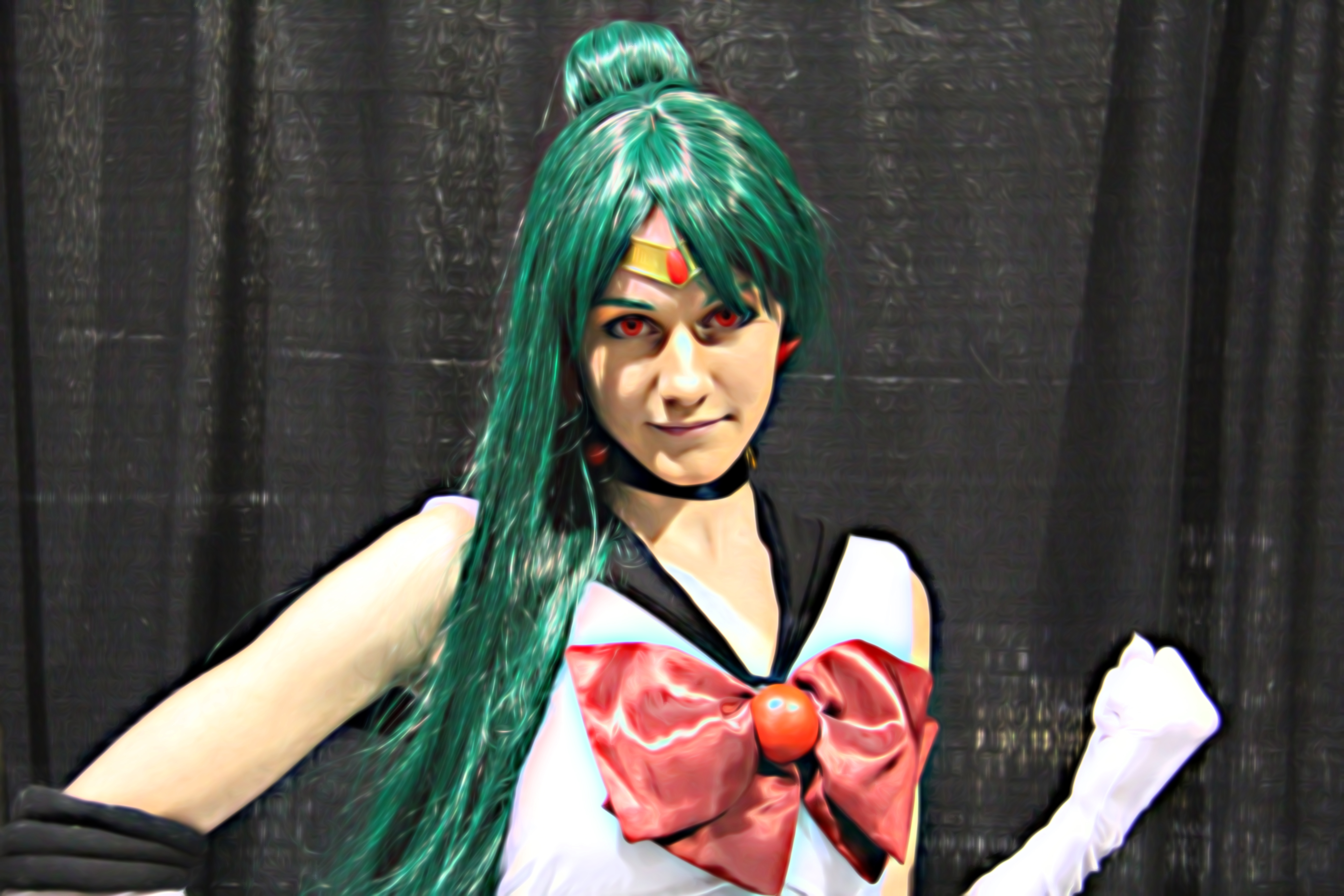 Cosplay of Sailor Pluto (from Sailor Moon) at Calgary Comic & Entertainment Expo 2016.